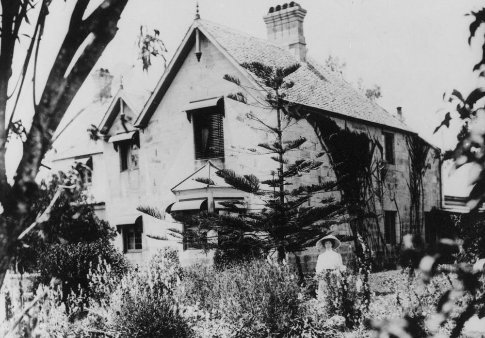 In the garden at Bulimba House, Brisbane, ca. 1905. In 1887 Edward Griffith, the manager of the Royal Bank of Queensland, acquired Bulimba House. The woman in the photograph is possibly a member of the Griffith family. Bulimba House is the oldest stone house still standing in Brisbane.